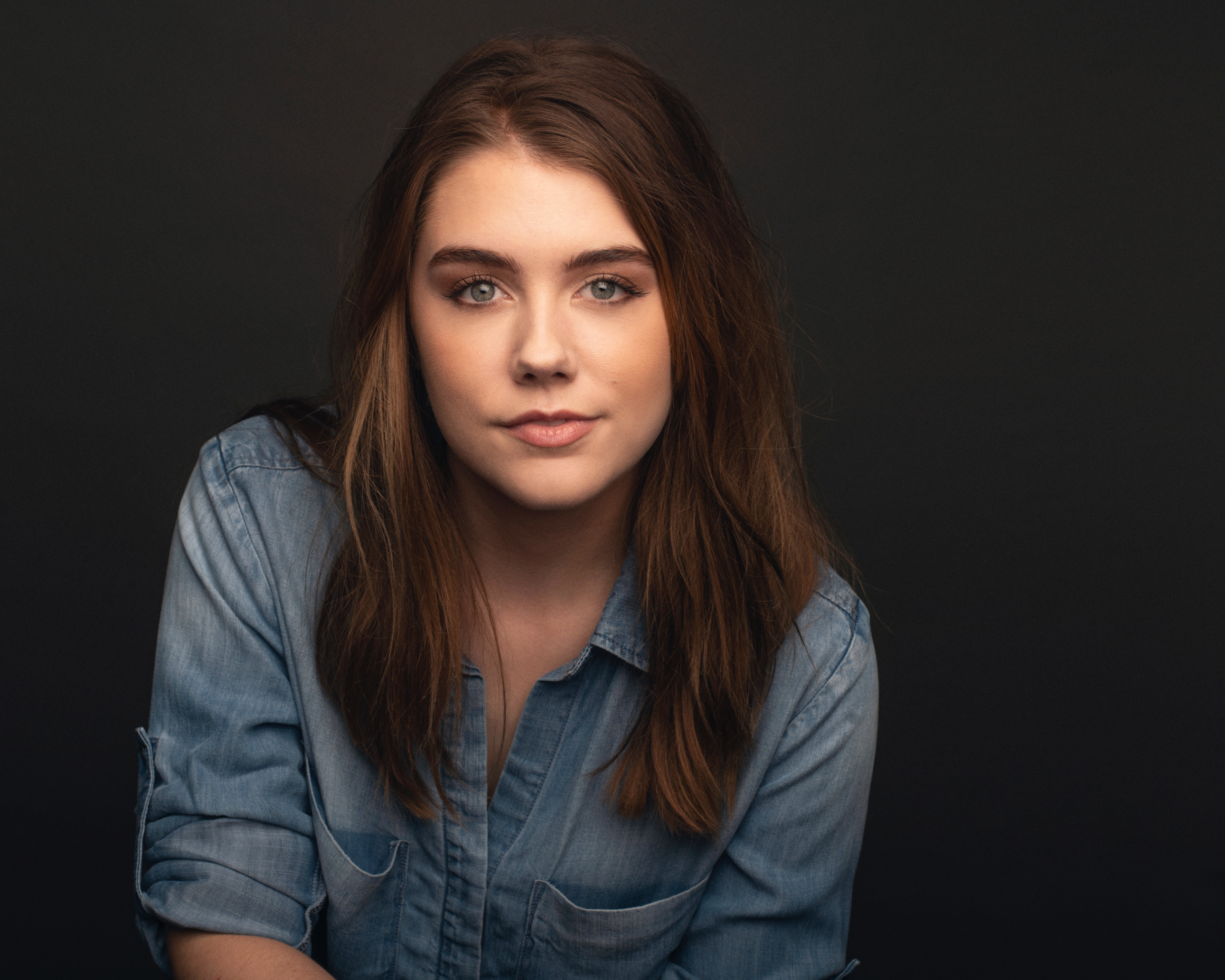 Gatlin Kate James photographed by Luke Fontana.